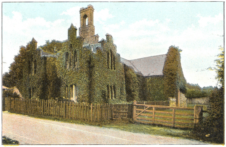 QUARR ABBEY, W. RYDE.—The distance of the Abbey from Ryde is about three miles. It is a favourite walk from Spencer Road, viâ The Lovers' Walk, past Binstead Church, through Quarr Wood. This portion is occupied as a farm, but remains of the old Abbey are scattered about, portions still standing to testify its extent and importance. The walk may be continued through the archway on to Fishbourne. In the wood the daffodil is plentiful, primroses, lungwort, and the blue iris also abound in their season. The Wood has been very extensively quarried for the limestone, with which Winchester Cathedral and many Churches were built. There are pathways through the Wood down to the shore, forming very pleasing vistas through the overhanging trees.